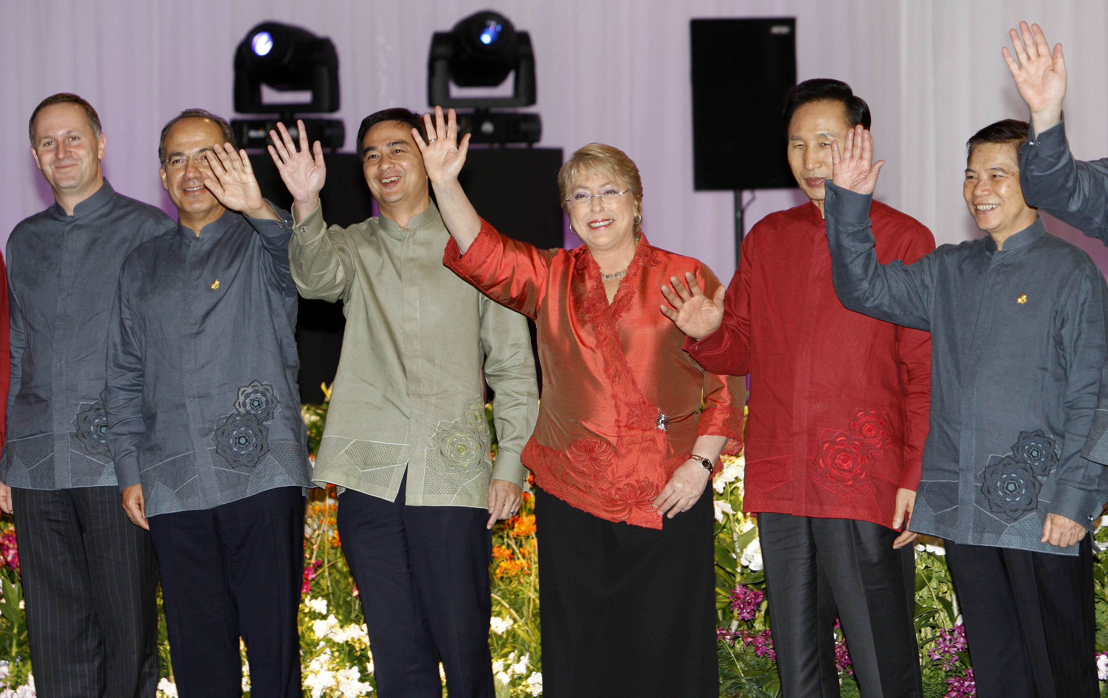 New Zealand Prime Minister John Key, Mexico's President Felipe Calderon, Thailand's Prime Minister Abhisit Vejjajiva, Chile's Michelle Bachelet, South Korean President Lee Myung-bak and and Vietnam President Nguyen Minh Triet wave during a group photo at the summit's Gala Dinner in Singapore, Saturday, Nov.14, 2009.